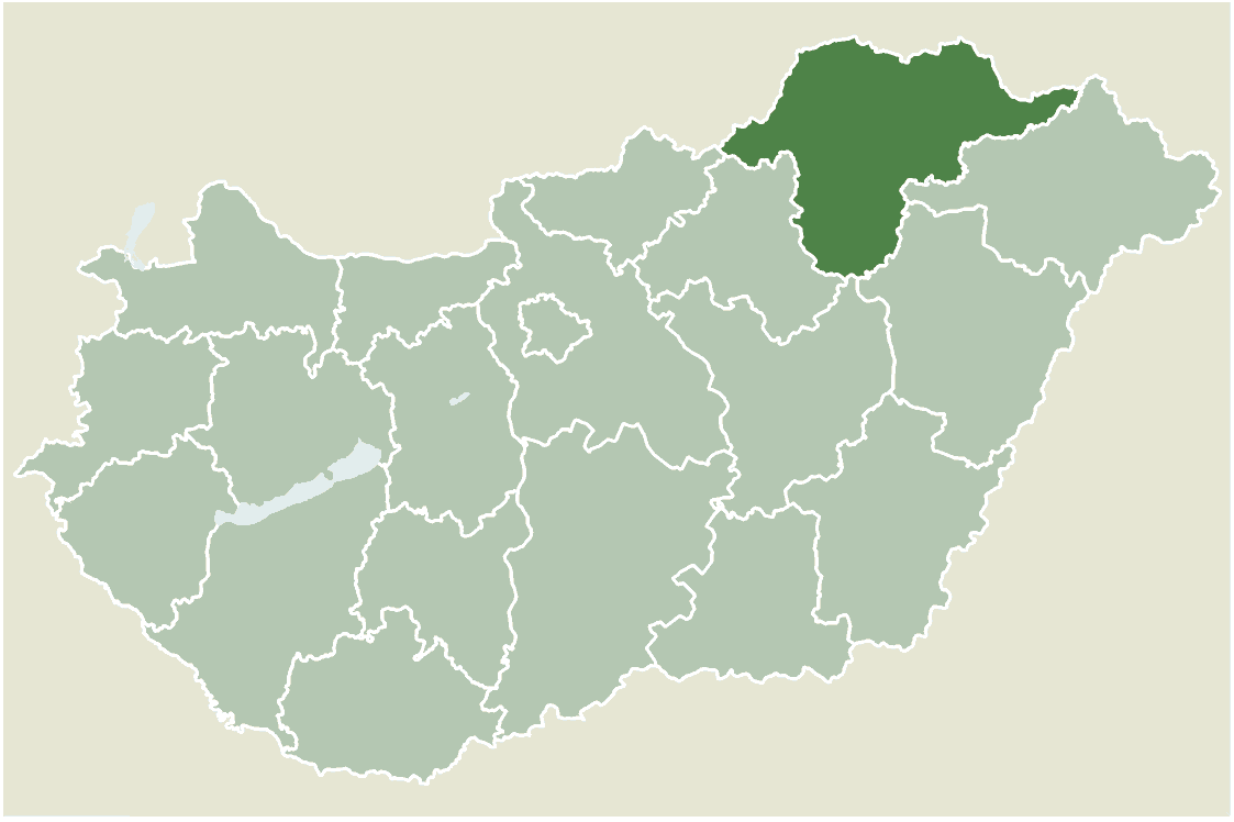 Location map for Borsod-Abaúj-Zemplén county, Hungary.